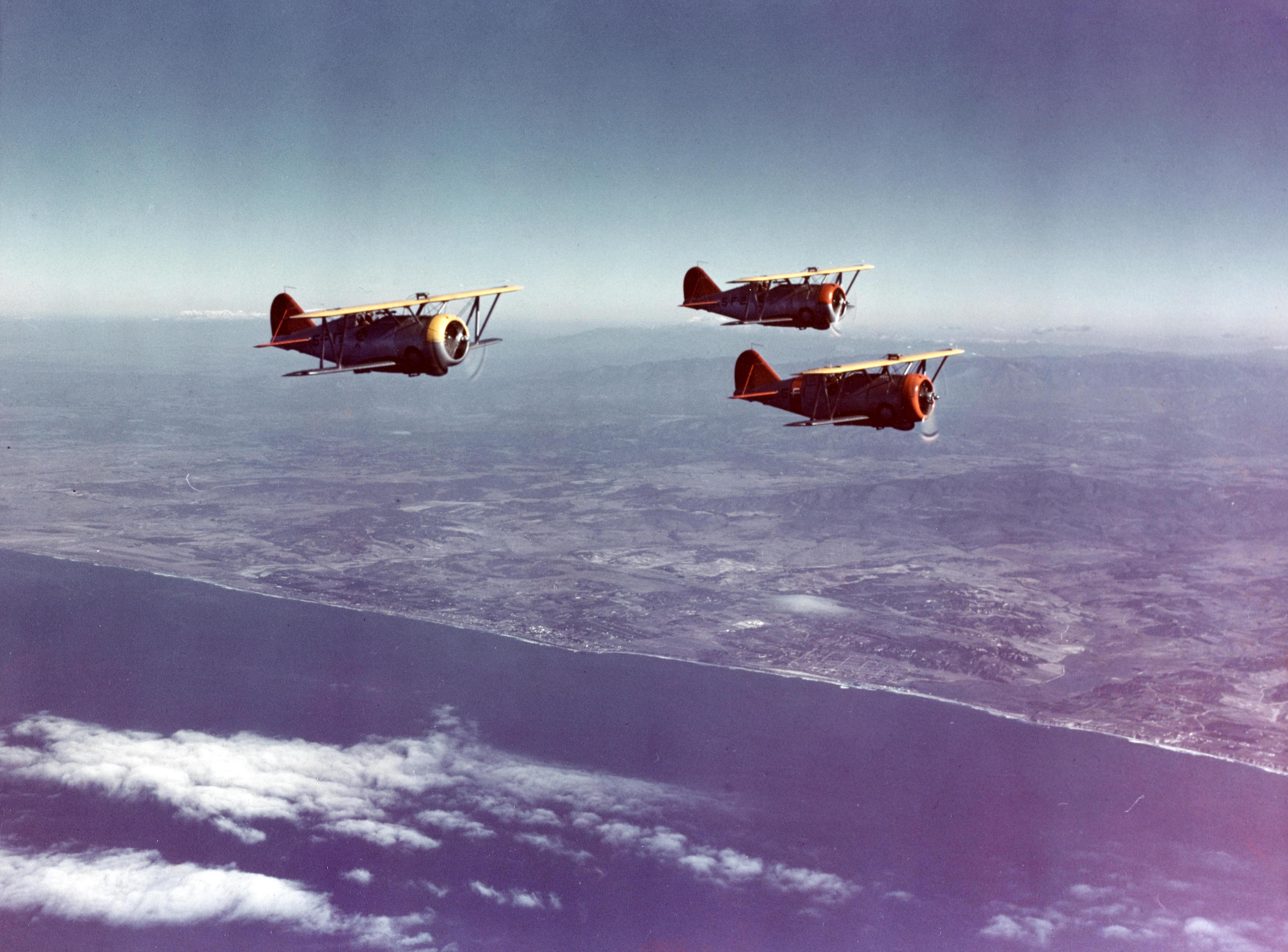 U.S. Navy Grumman F3F-3 fighters from Fighting Squadron 5 (VF-5) from the aircraft carrier USS Yorktown (CV-5) in a three-plane formation over the Southern California coast, circa 1939-40.